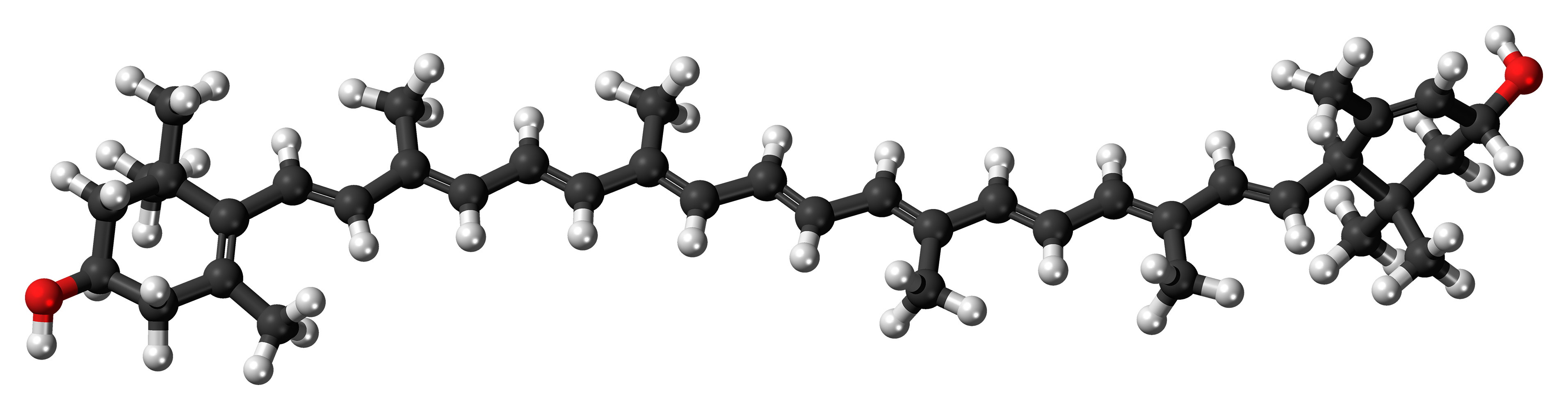 Ball-and-stick model of the lutein molecule, a compound used by plants to protect themselves from intense light]. Color code: Carbon, C: black Hydrogen, H: white Oxygen, O: red